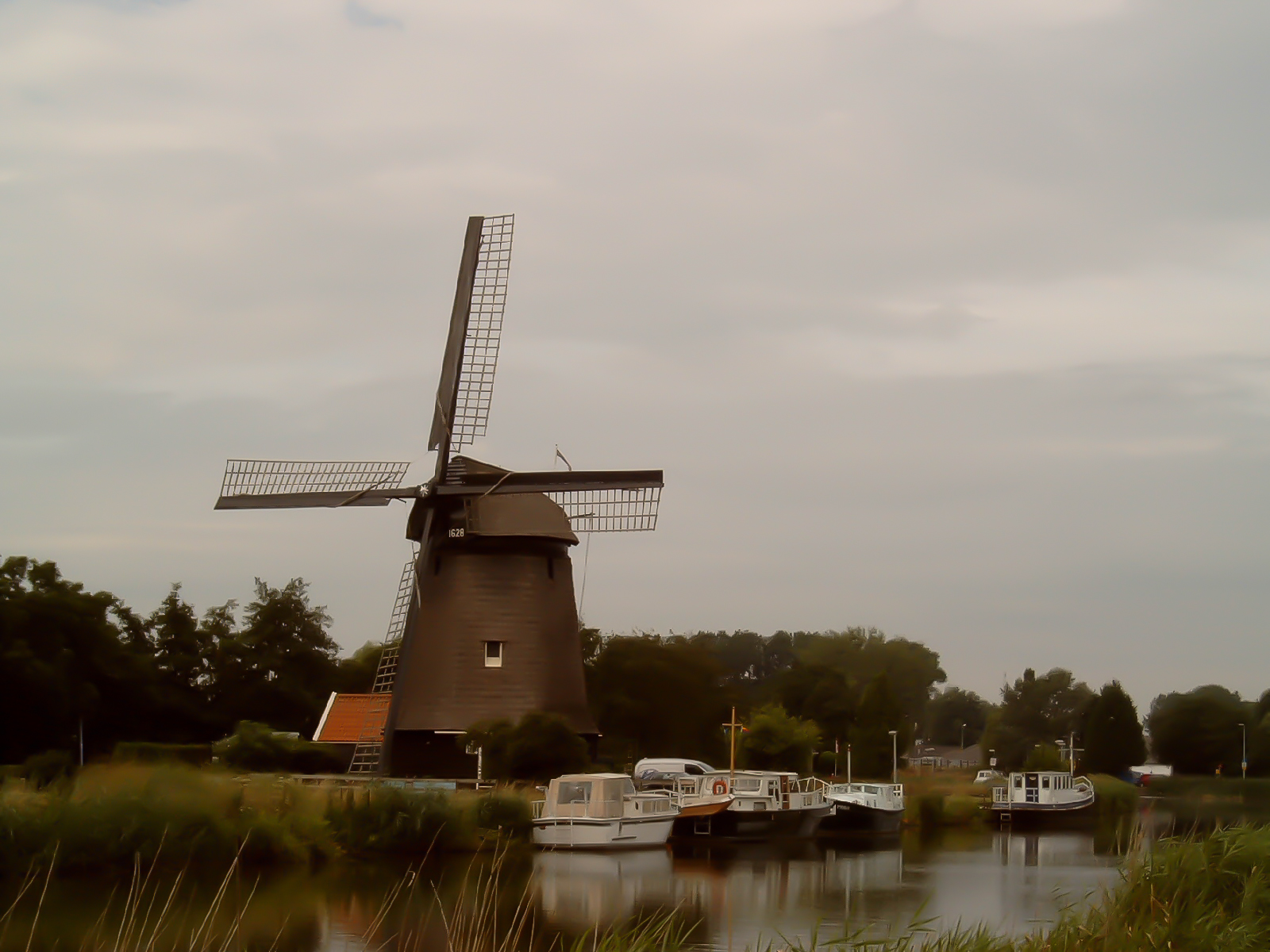 Alkmaar, windmill